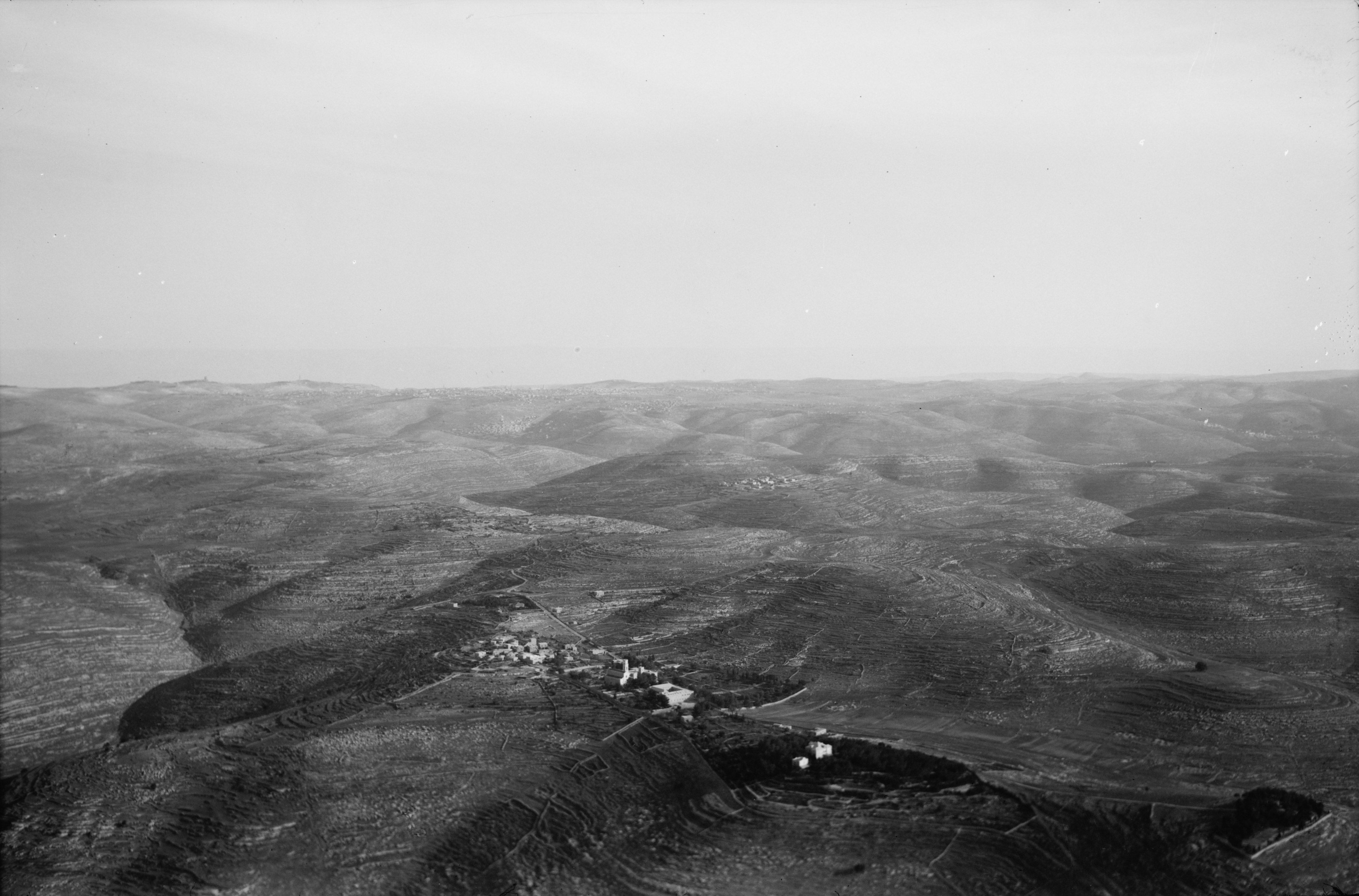 Title: Air views of Palestine. West of Jerusalem. El-Kubeibi. Emmaus. Looking east toward Jerusalem Abstract/medium: G. Eric and Edith Matson Photograph Collection Physical description: 1 negative